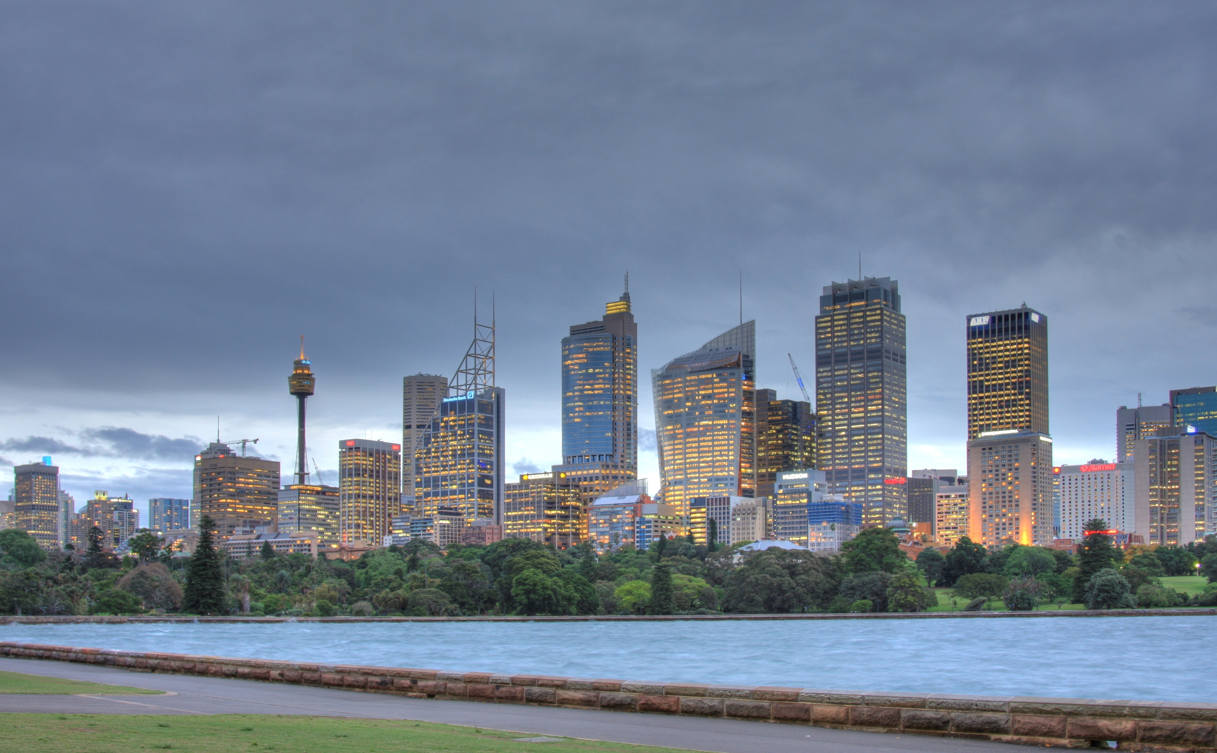 City of Sydney during sunset from the Domain